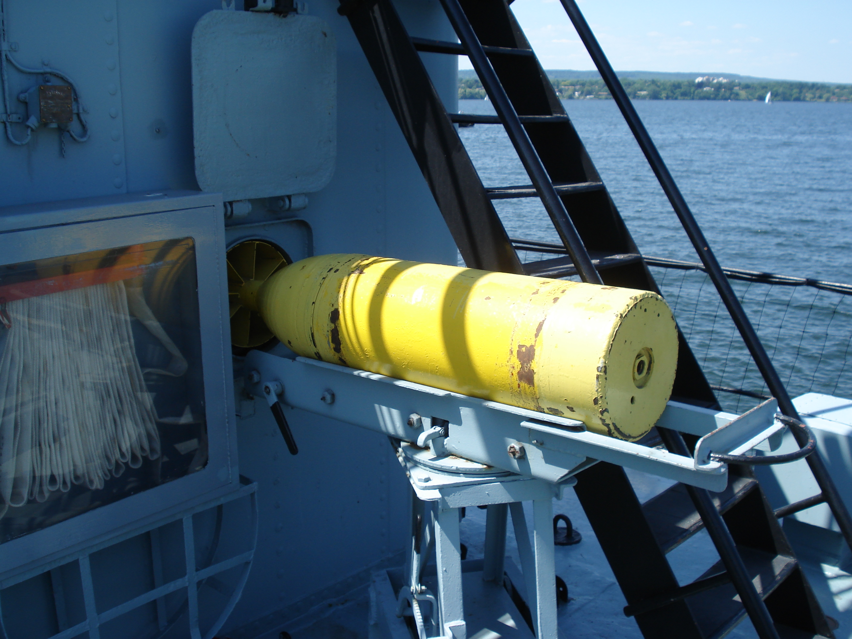 Squid anti-submarime mortar round on HMCS Haida